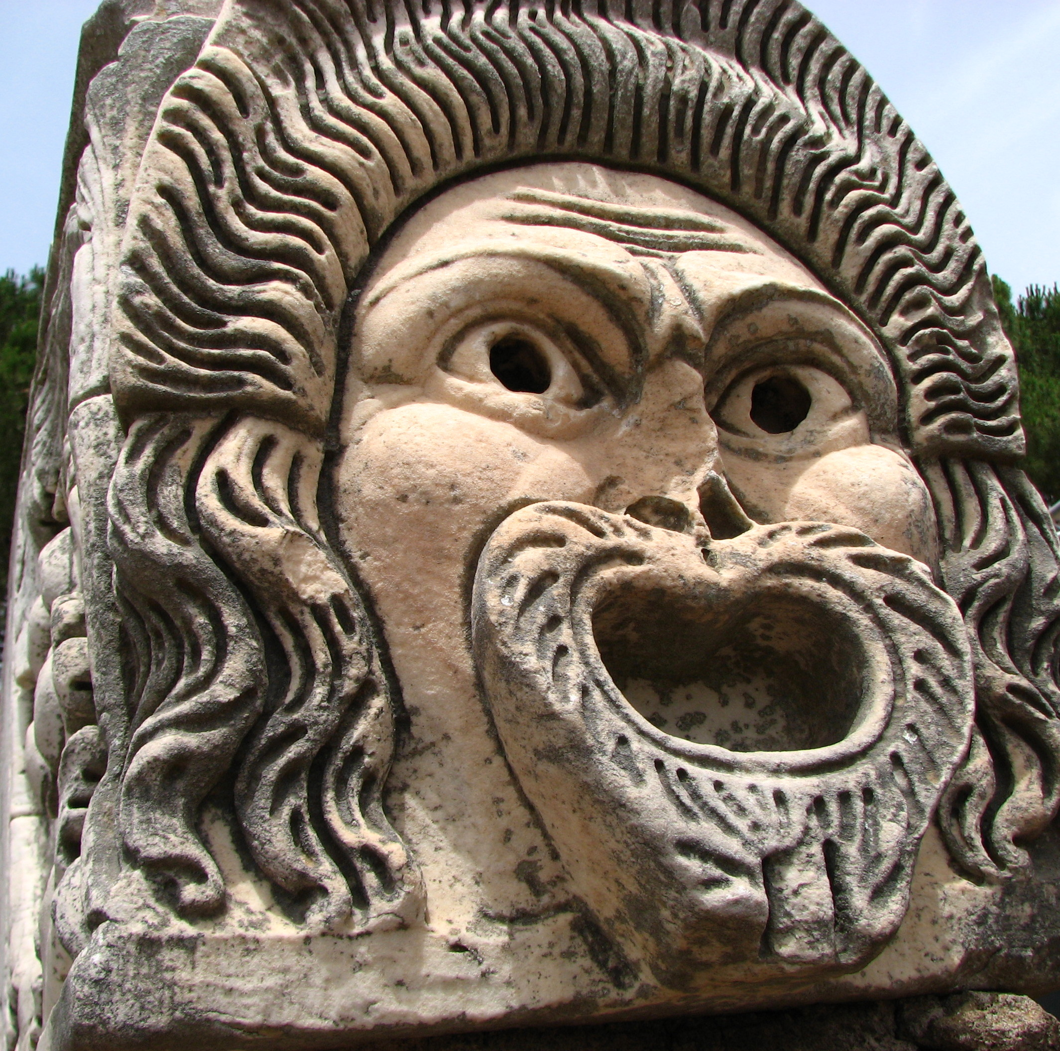 Theatrical mask, part of the architectural decoration of the theatre (regio II, insula VII). Ostia Antica, Rome, Italy.